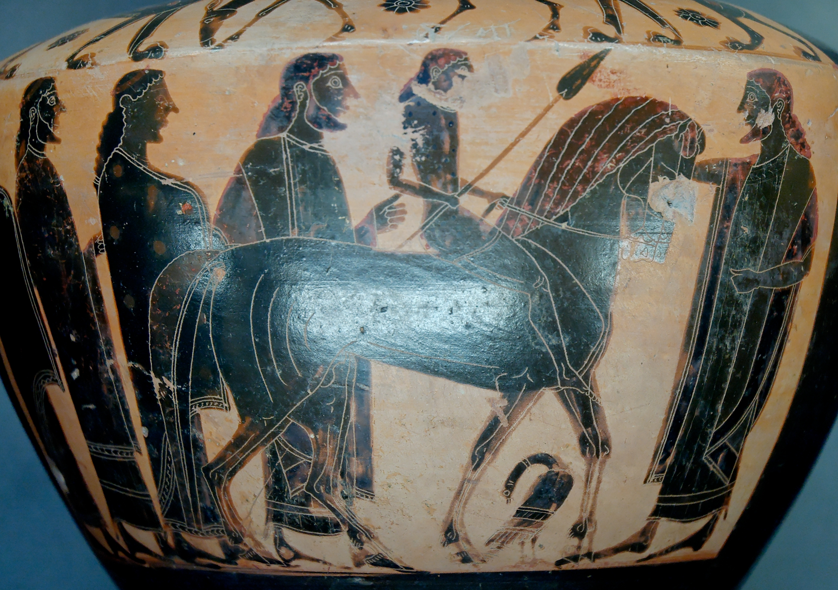 Warrior's departure (possibly the Dioscuri twins departing for Marathon to recover their abducted sister Helen -- twin horsemen are suggested by the two layered horses, comp. Attic red-figure paintings of the Dioscuri.) Attic black-figure hydria, ca. 570–560 BC. Found in Athens.